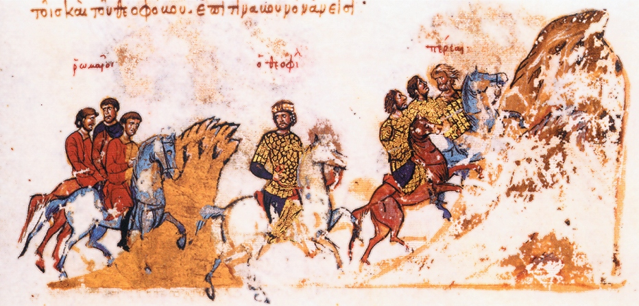 Skyllitzes Matritensis, fol. 54r, detail Miniature: The Byzantine army under Emperor Theophilos retreats towards a mountain